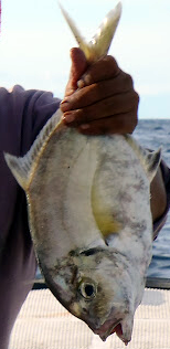 Carangoides malabaricus, Sri Lanka